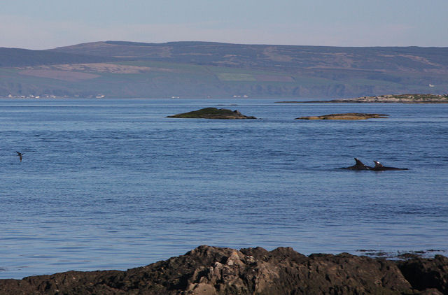 Two dolphins off Gigha's southern coastline This pair of dolphins is heading south between the islands of Gigha and Cara.